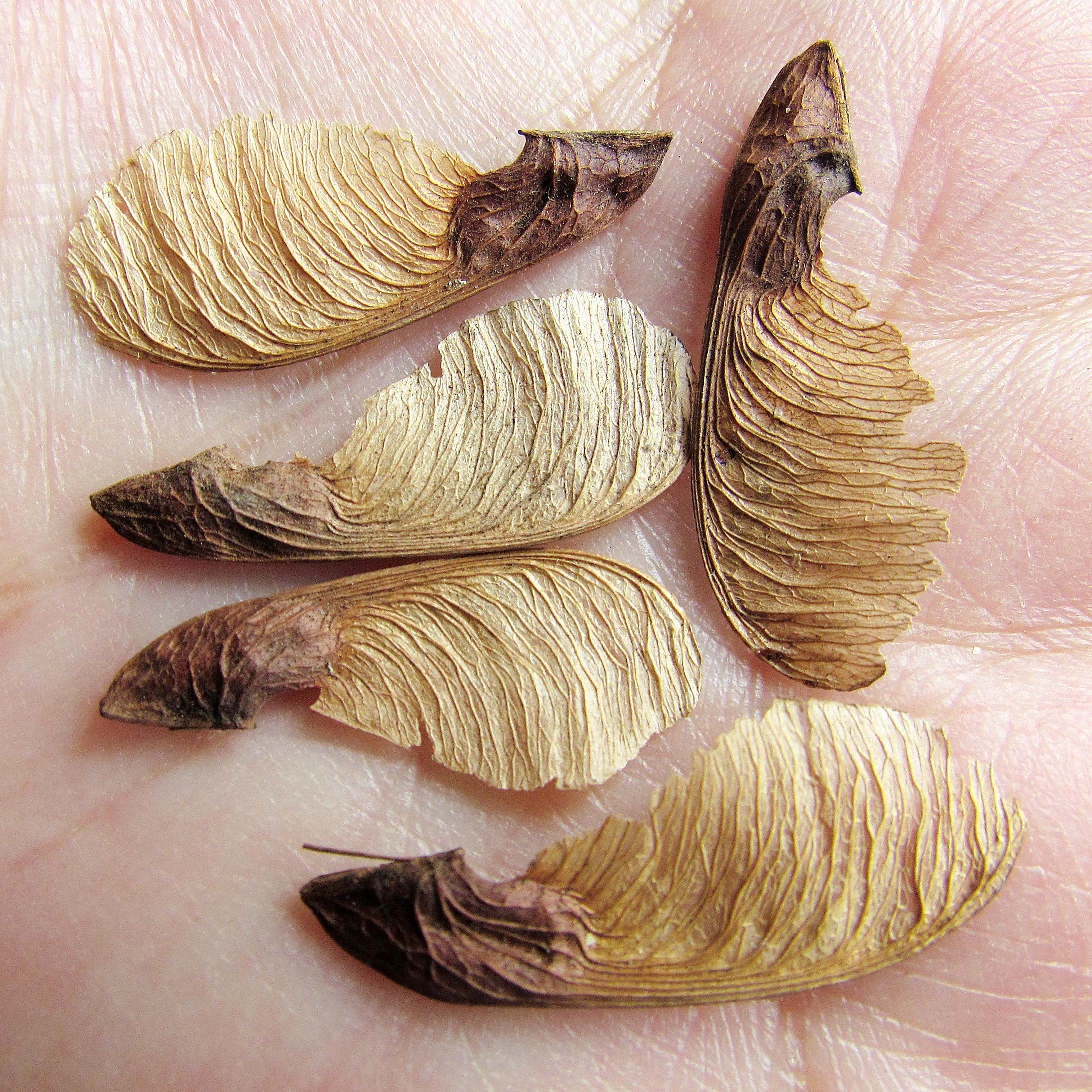 Acer tataricum fruits